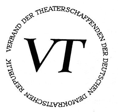 Symbol of the Union of the Theatre employees in the GDR